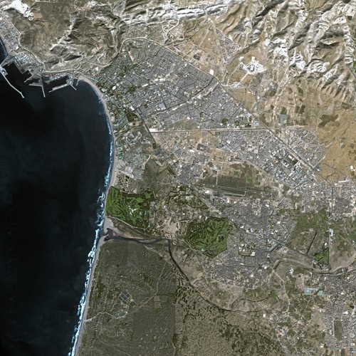 Agadir by SPOT Satellite